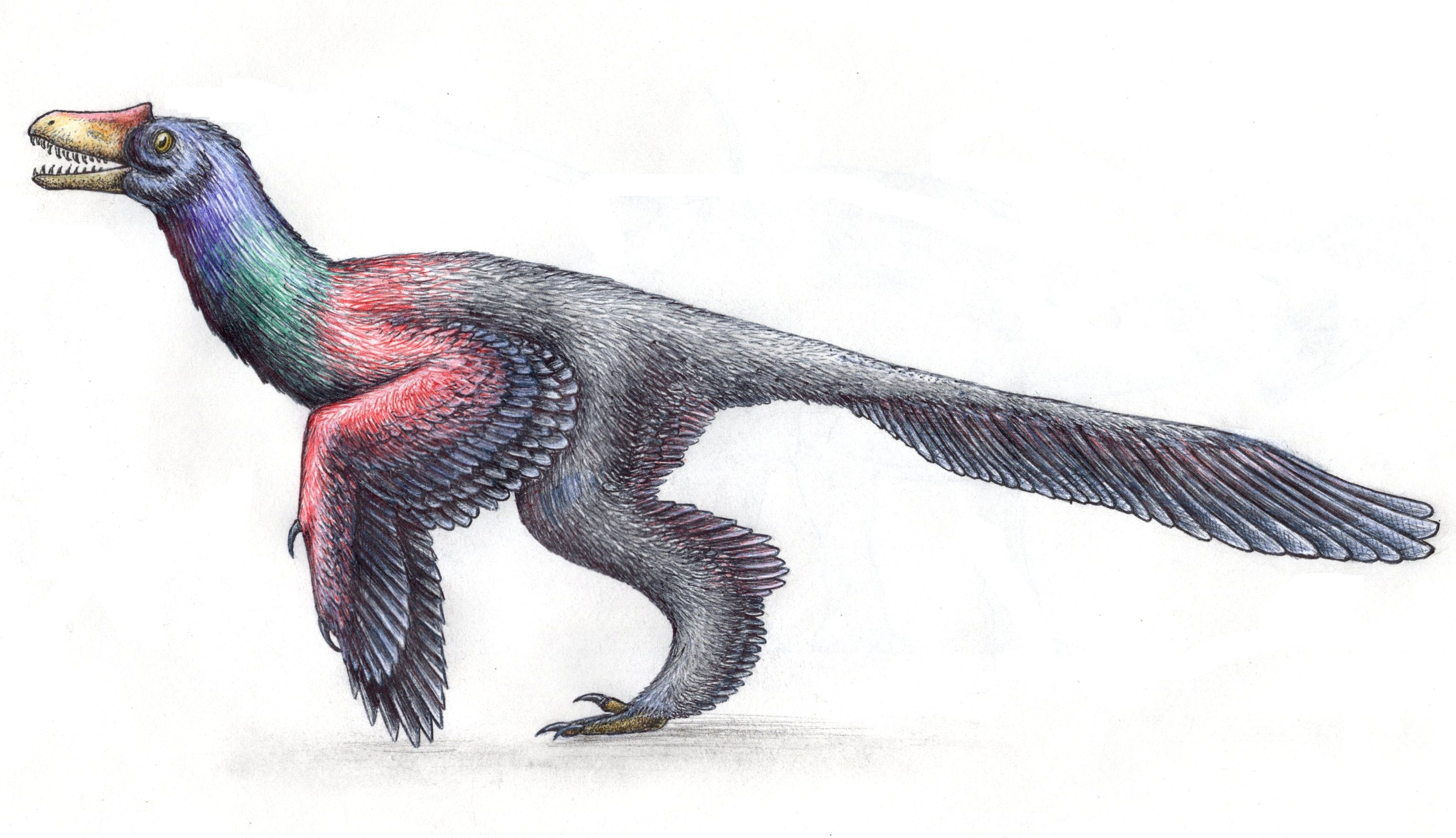 Caihong juji